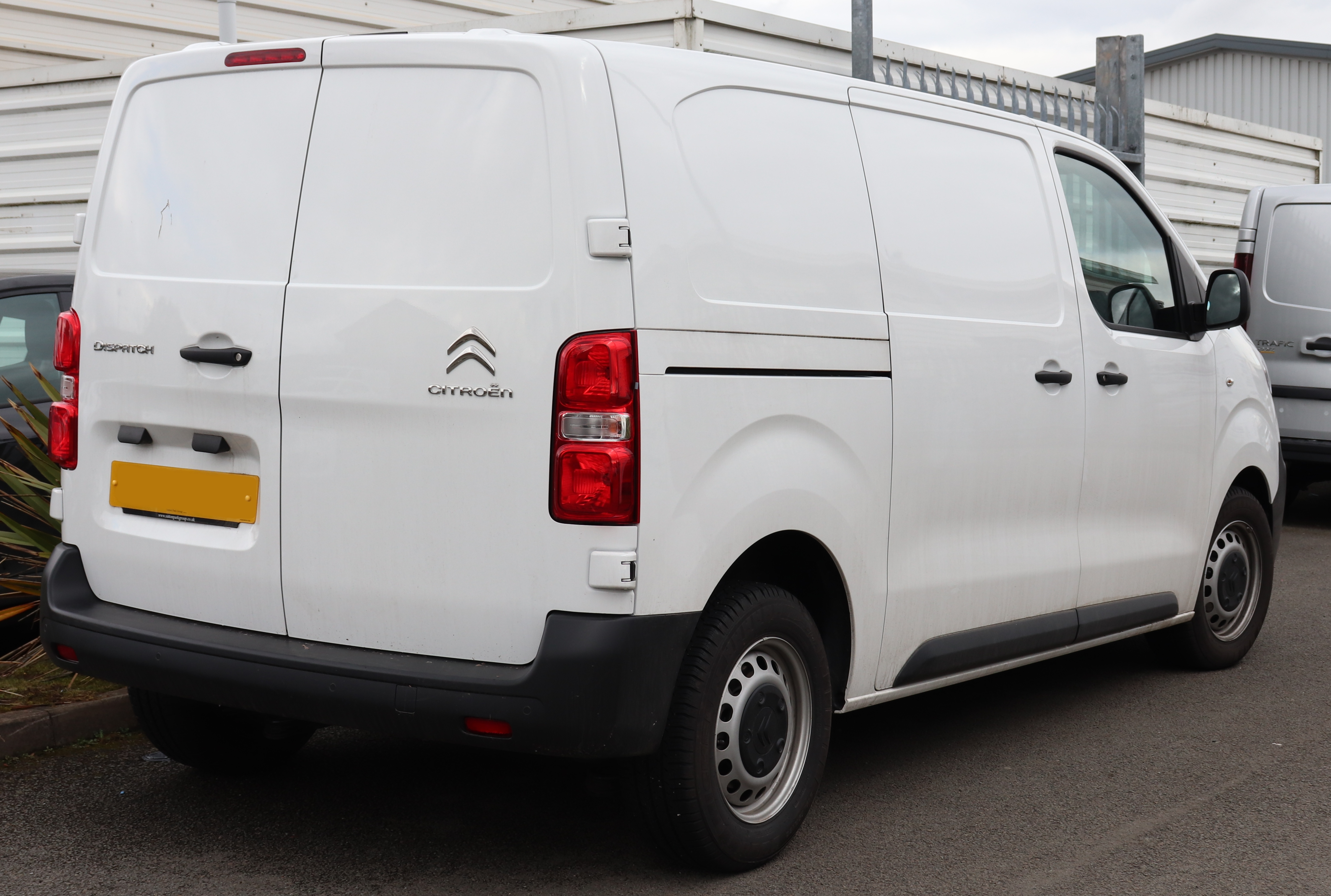 2017 Citroen Dispatch 1400 2.0 Rear Taken in Leamington Spa